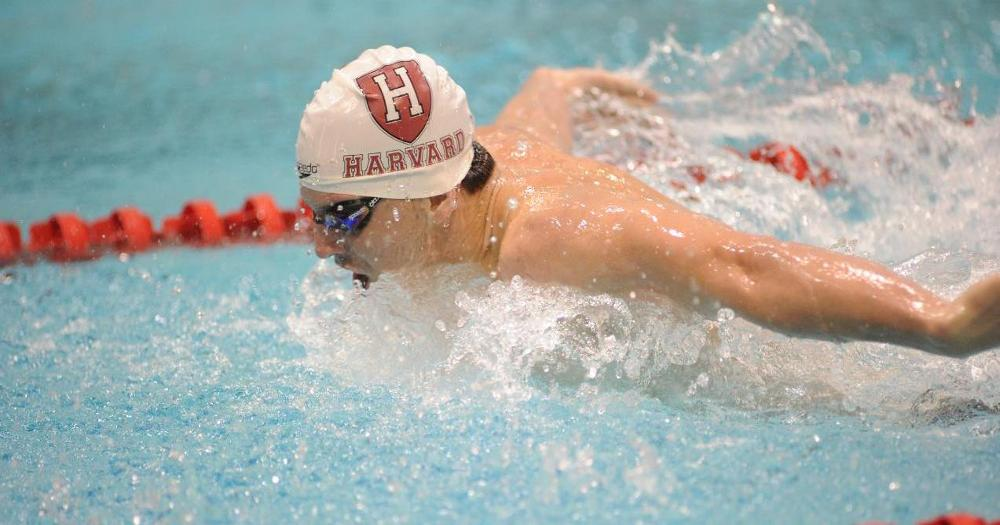 a swimmer doing butterfly